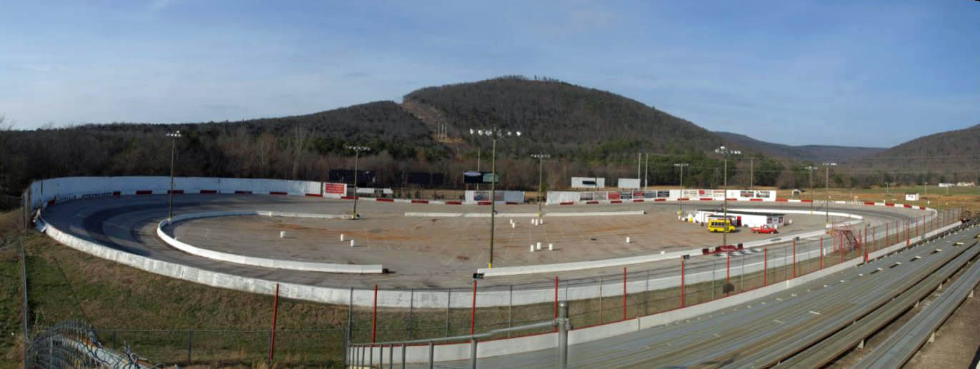 Panorama of Huntsville Speedway in Huntsville, Alabama This panoramic image was created with Autostitch (stitched images may differ from reality).